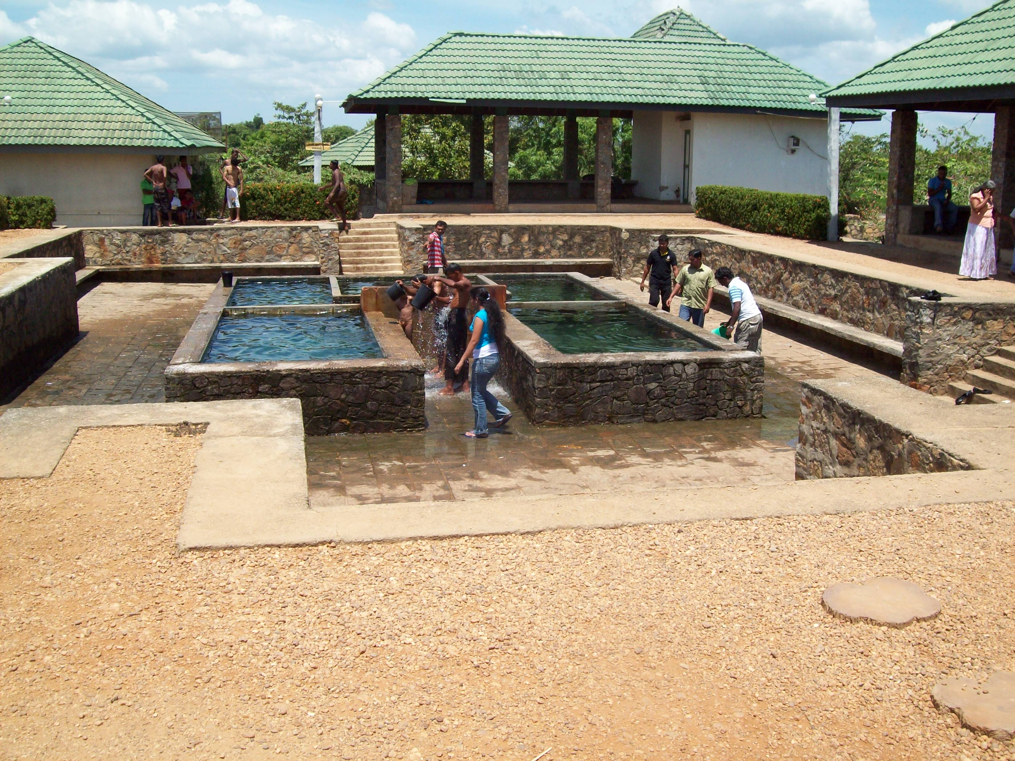 Madunagala Hot Spring 2012